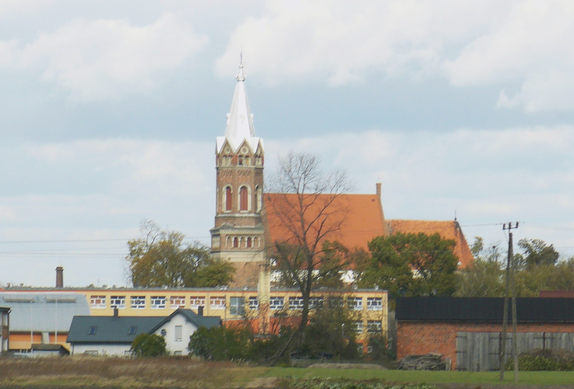 Stawiszyn, Church.